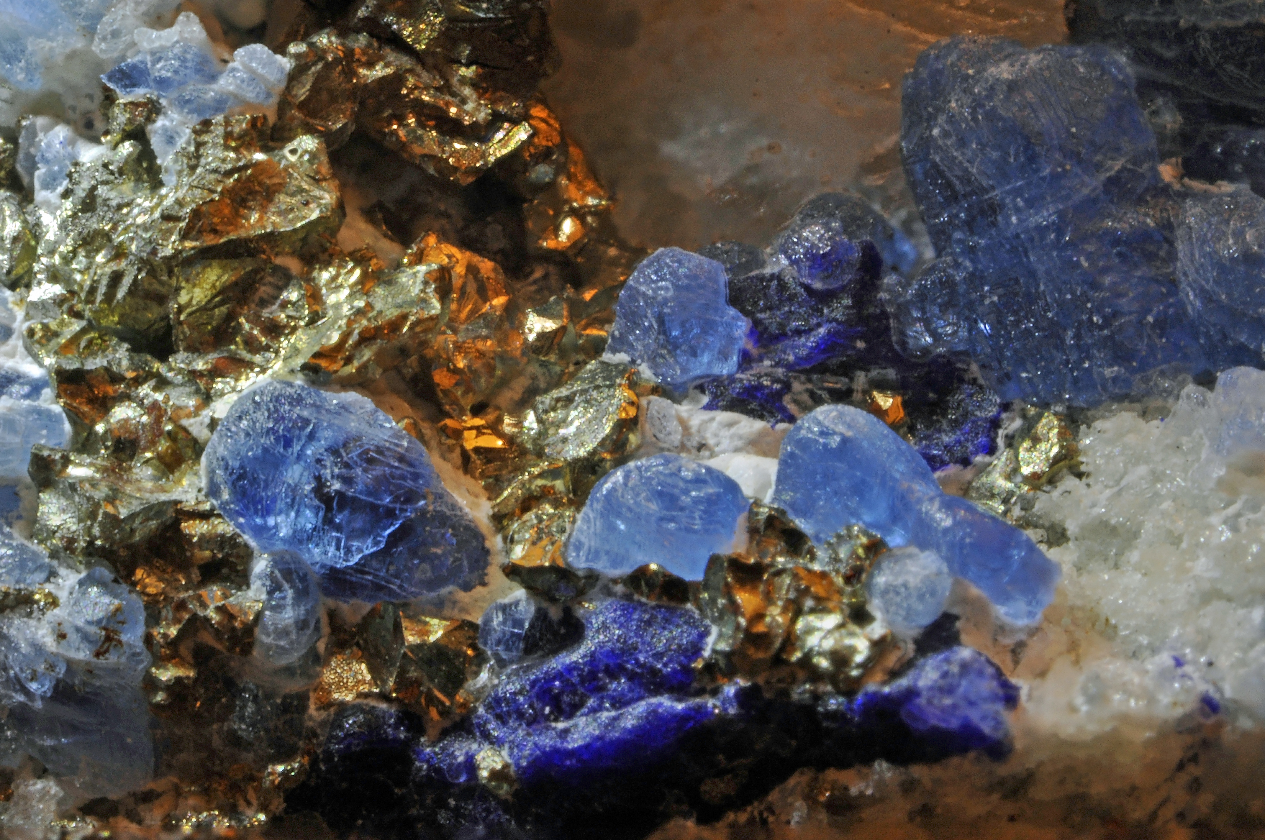 afghanite, haüyne, haüyne var. lazurite, pyrite, calcite : Ladjuar Medam (Lajur Madan ; Lapis-lazuli Mine) Sar-e-Sang District, Koksha Valley (Kokscha Valley ; Kokcha Valley), Badakhshan Province (Badakshan Province ; Badahsan Province), Afghanistan